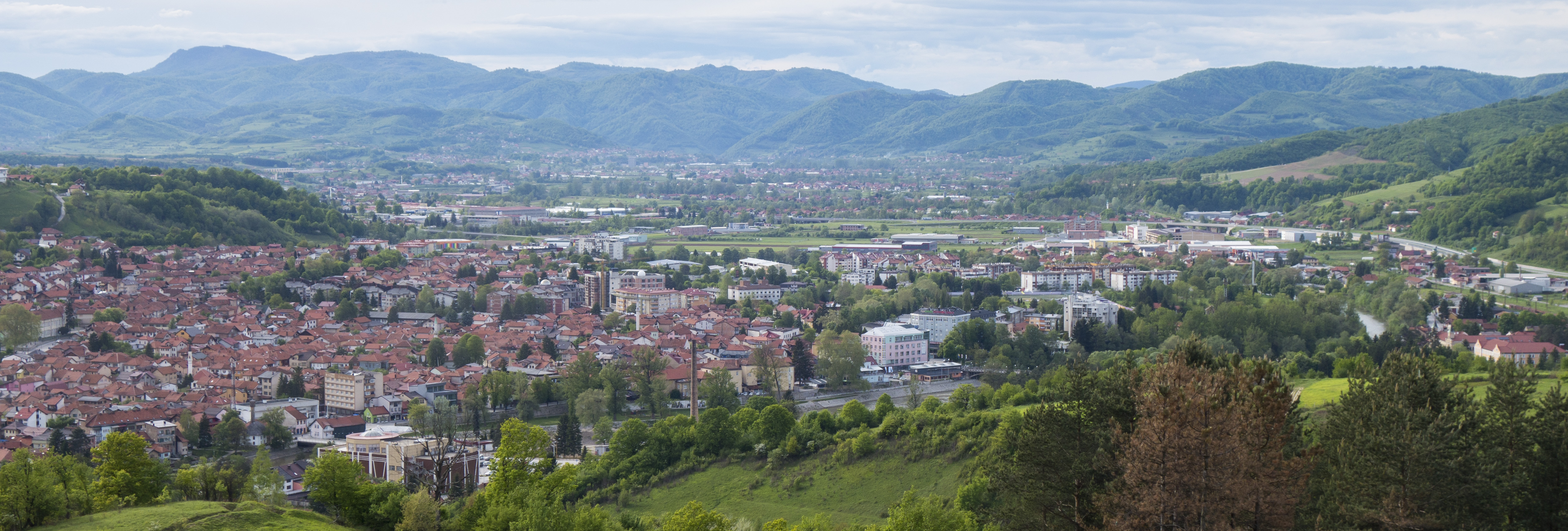 View from Vrela. Part of town is seen, and Visoko field or basin as it's known in distance. Left, not seen, is Visočica hill